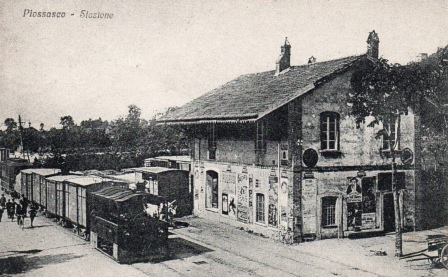 Piossasco, tramway station